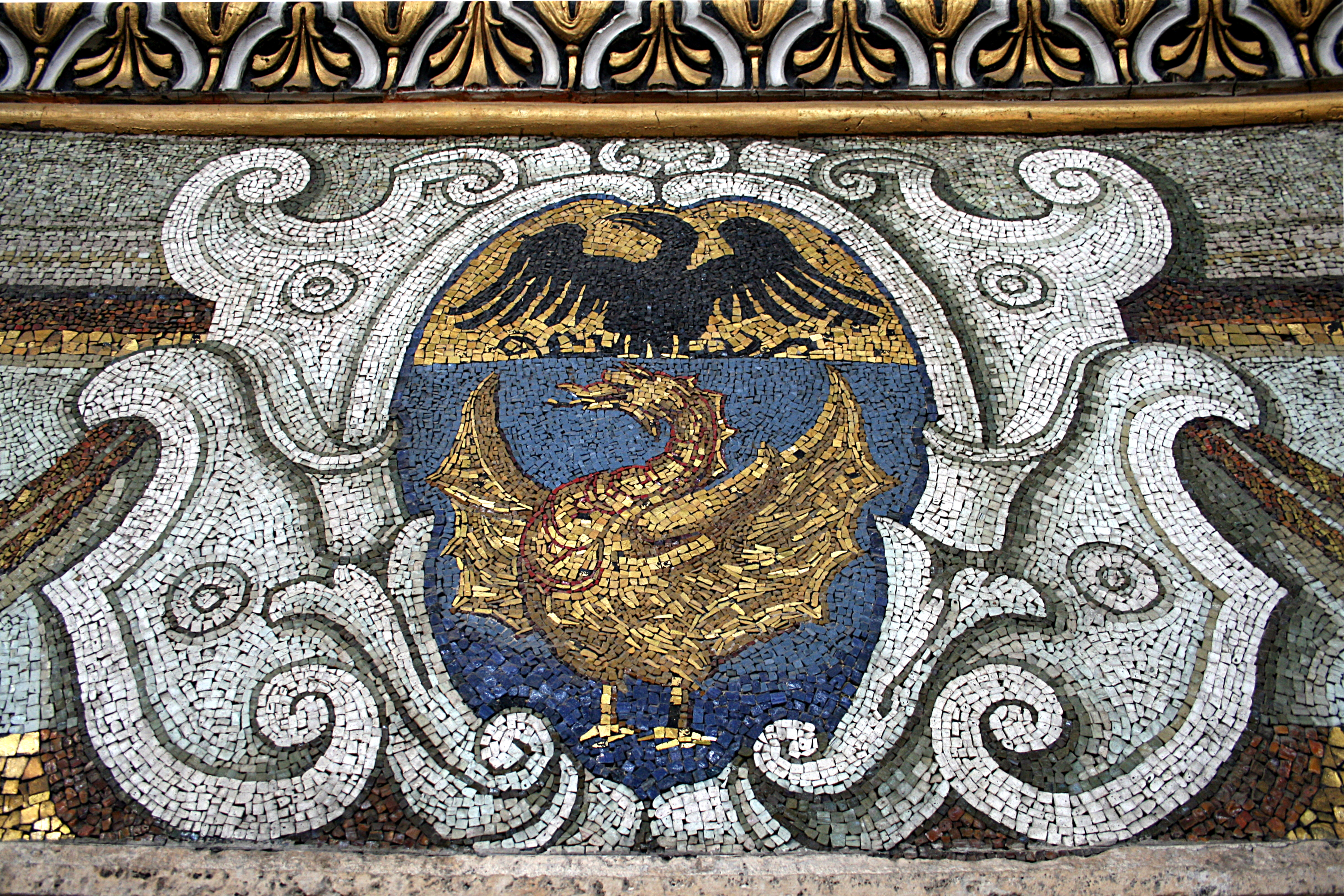 Mosaic depicting the arms of Pope Pope Paulus V (Camillo Borghese) adorning the dome of the St. Peter's Basilica in Vatican City .